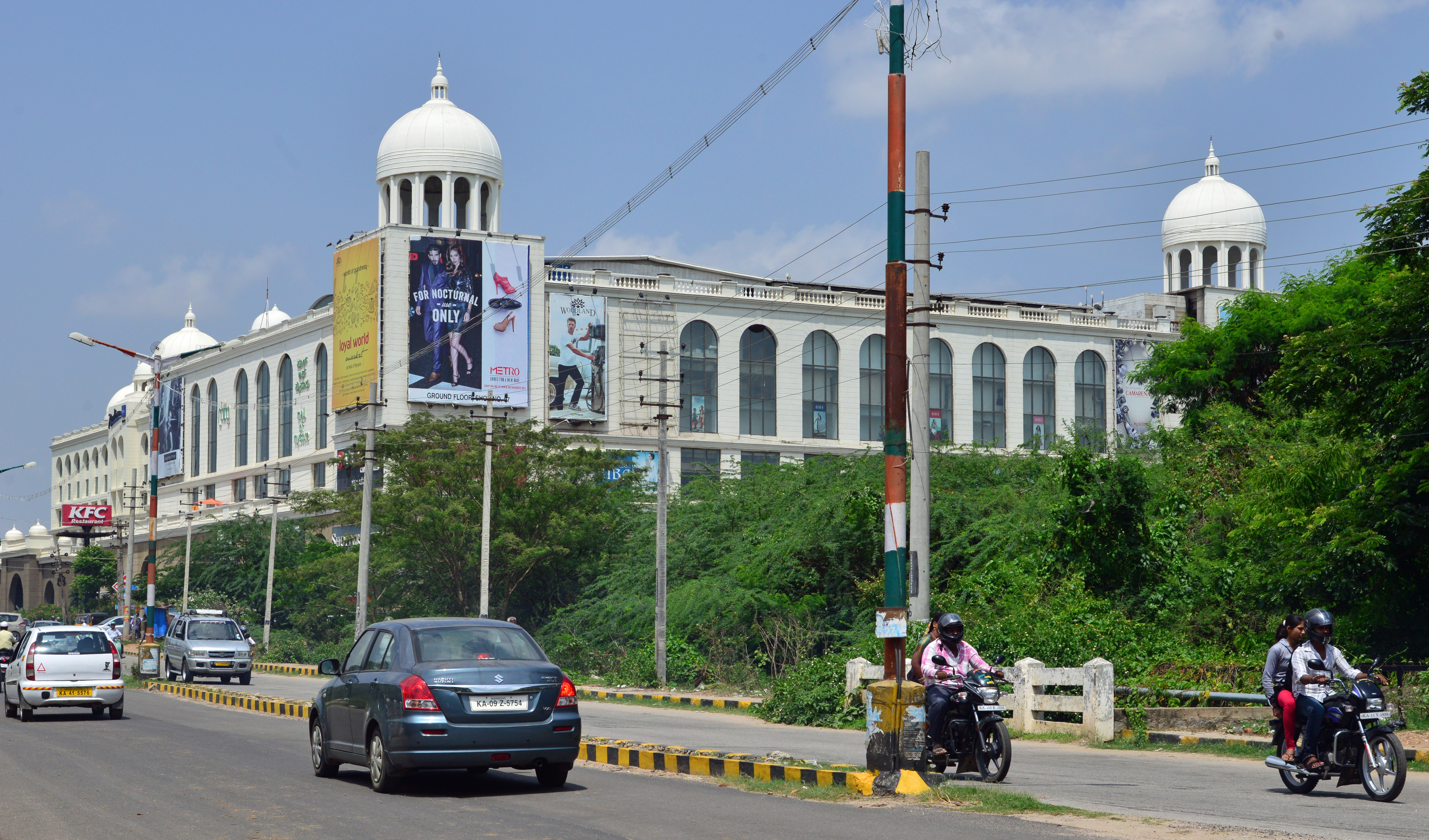 The Mall of Mysore shopping mall in Mysore